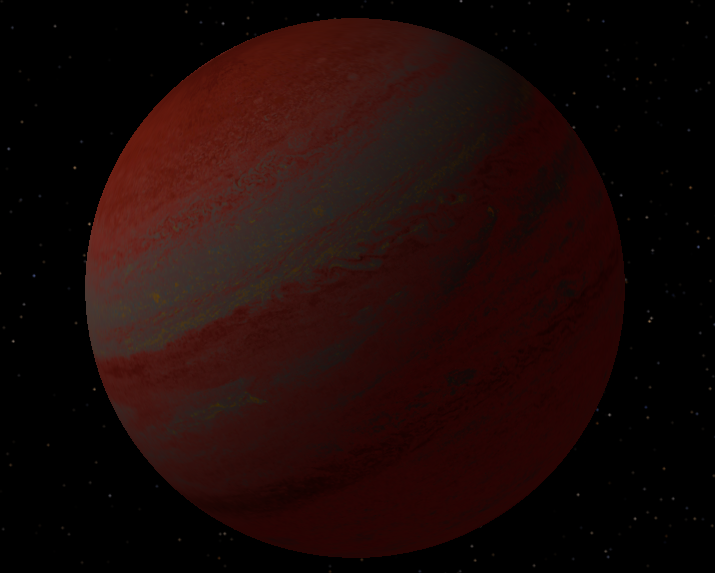 WASP-7 b, "Hot Jupiter".